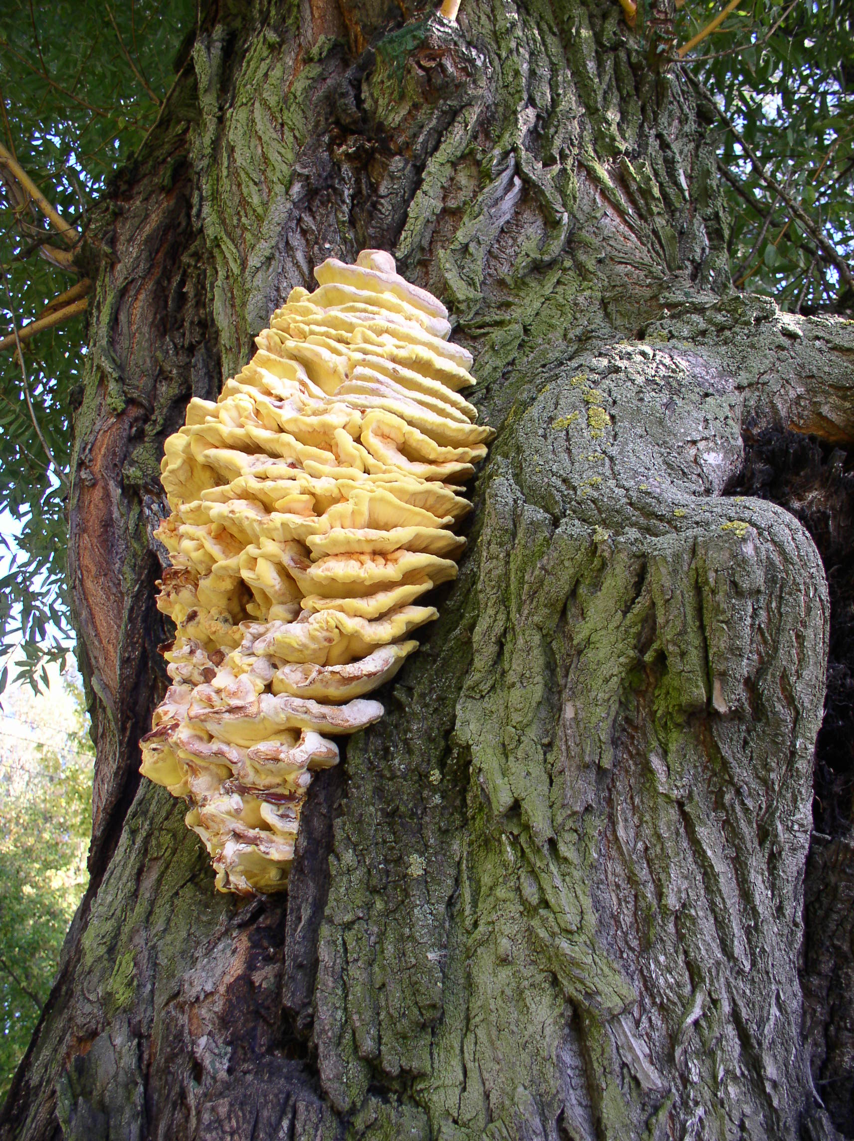 Park in Loshytsa. Minsk, Belarus.